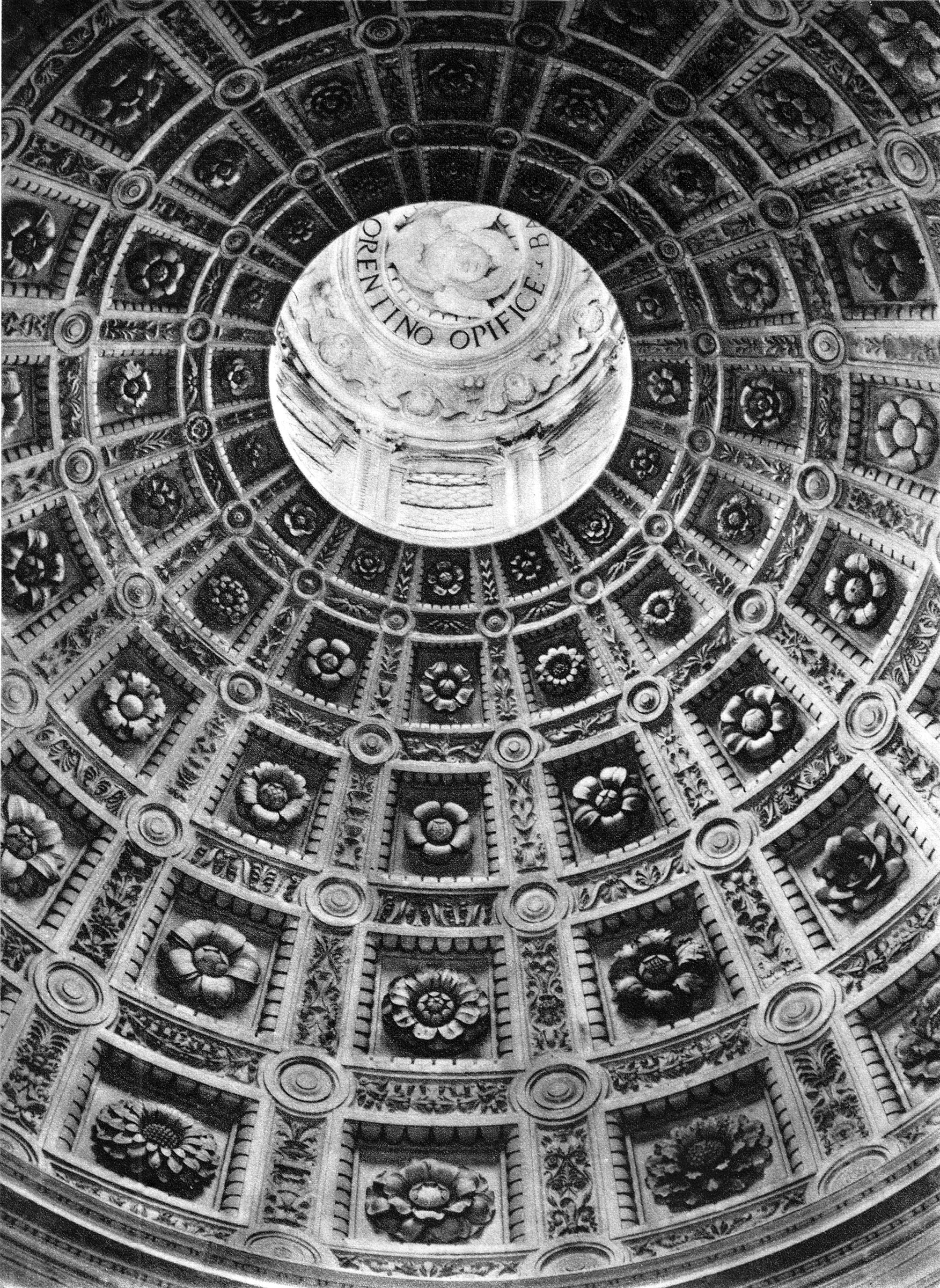 Dome of the Sigismund Chapel of the Wawel Cathedral, Cracow